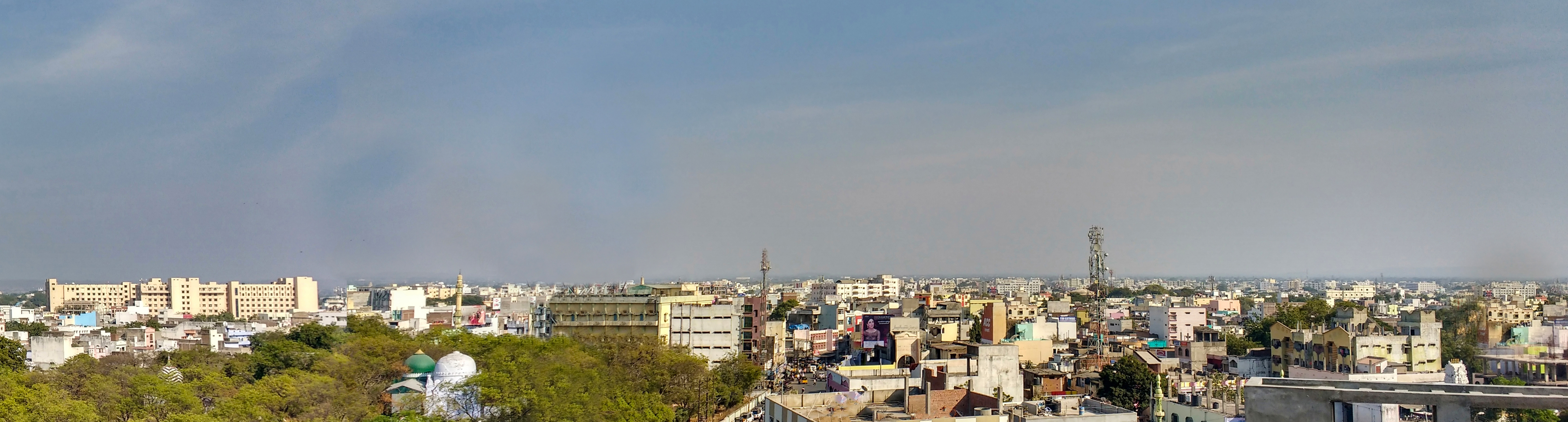 A view of Nizamabad city overlooking East